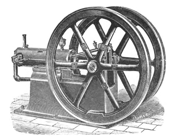 1898 illustration of a White and Middleton coal gas/town gas engine.